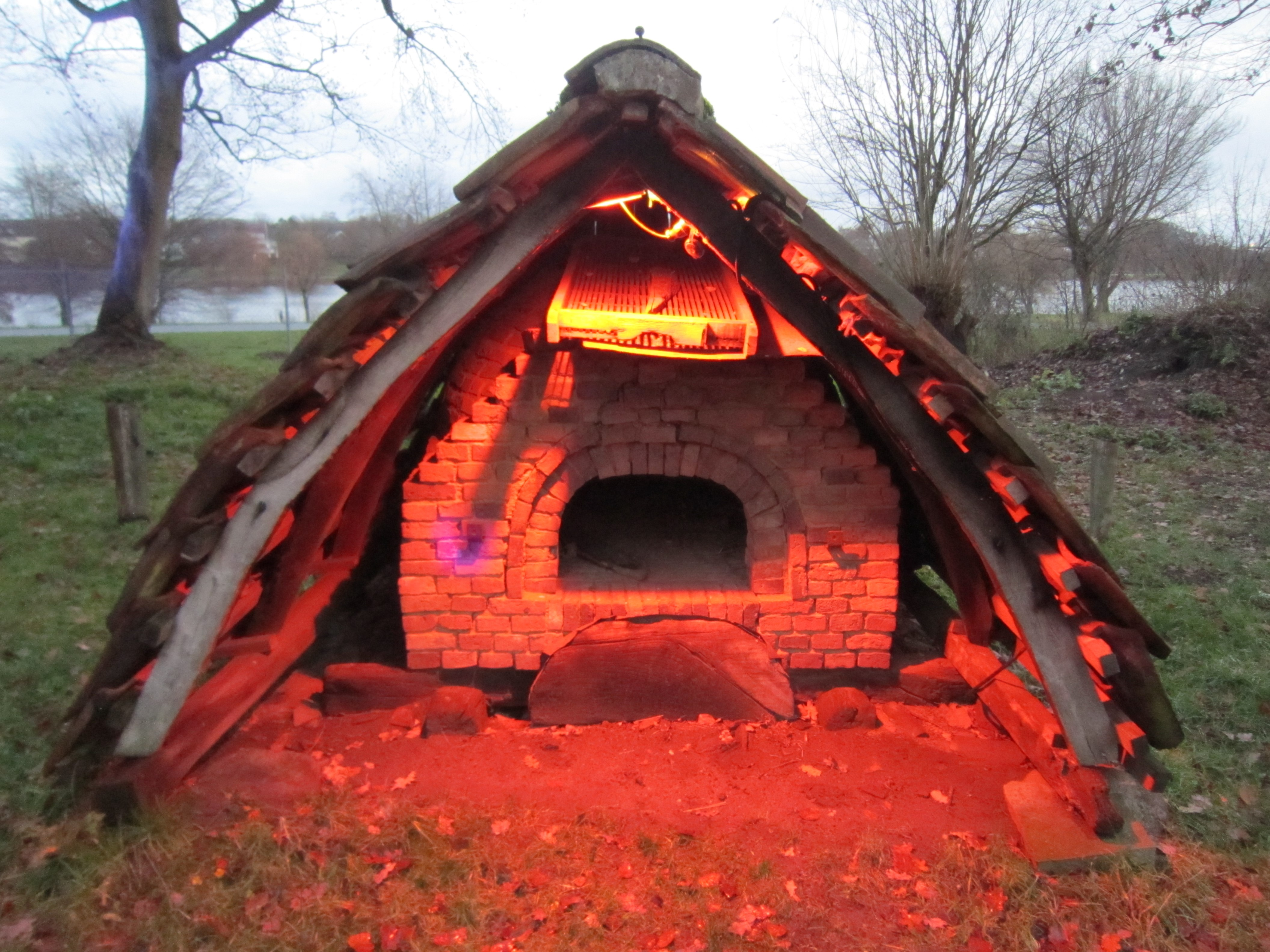 Illuminated baking-cottage in the open air museum "Mühlenhof" in Münster